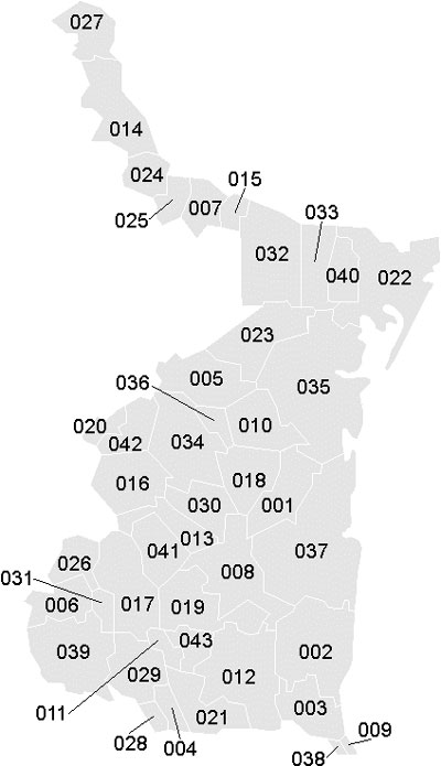 Map of the Municipalties of the State of Tamaulipas, México.